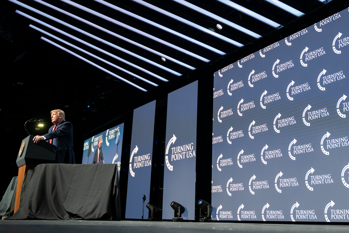 President Donald J. Trump addresses his remarks Saturday, Dec. 21, 2019, at Turning Point USA’s 5th annual Student Action Summit at the Palm Beach County Convention Center in West Palm Beach, Fla. (Official White House Photo by Shealah Craighead)